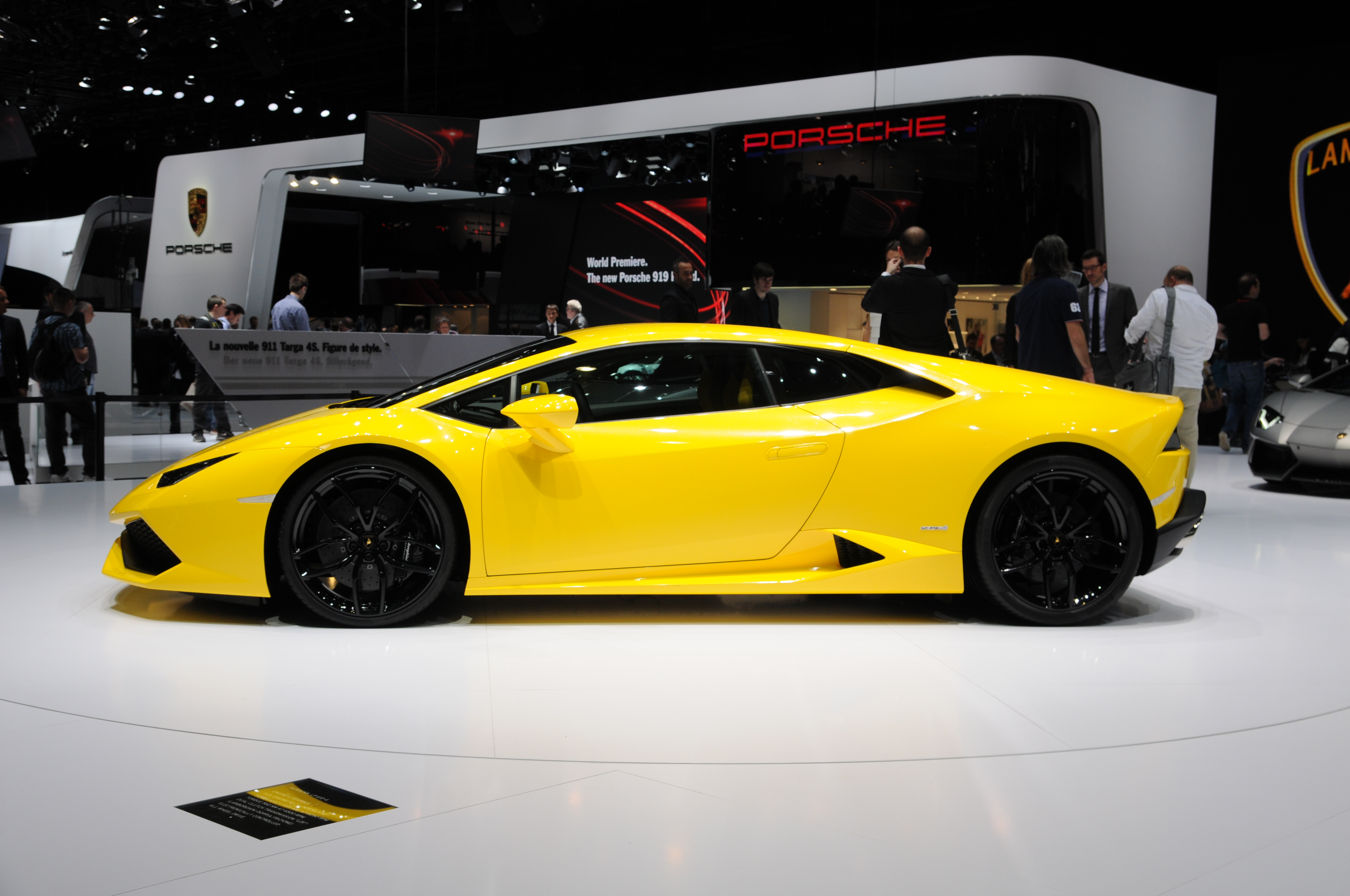 Geneva Motor Show 2014 (photo taken on the first press day)